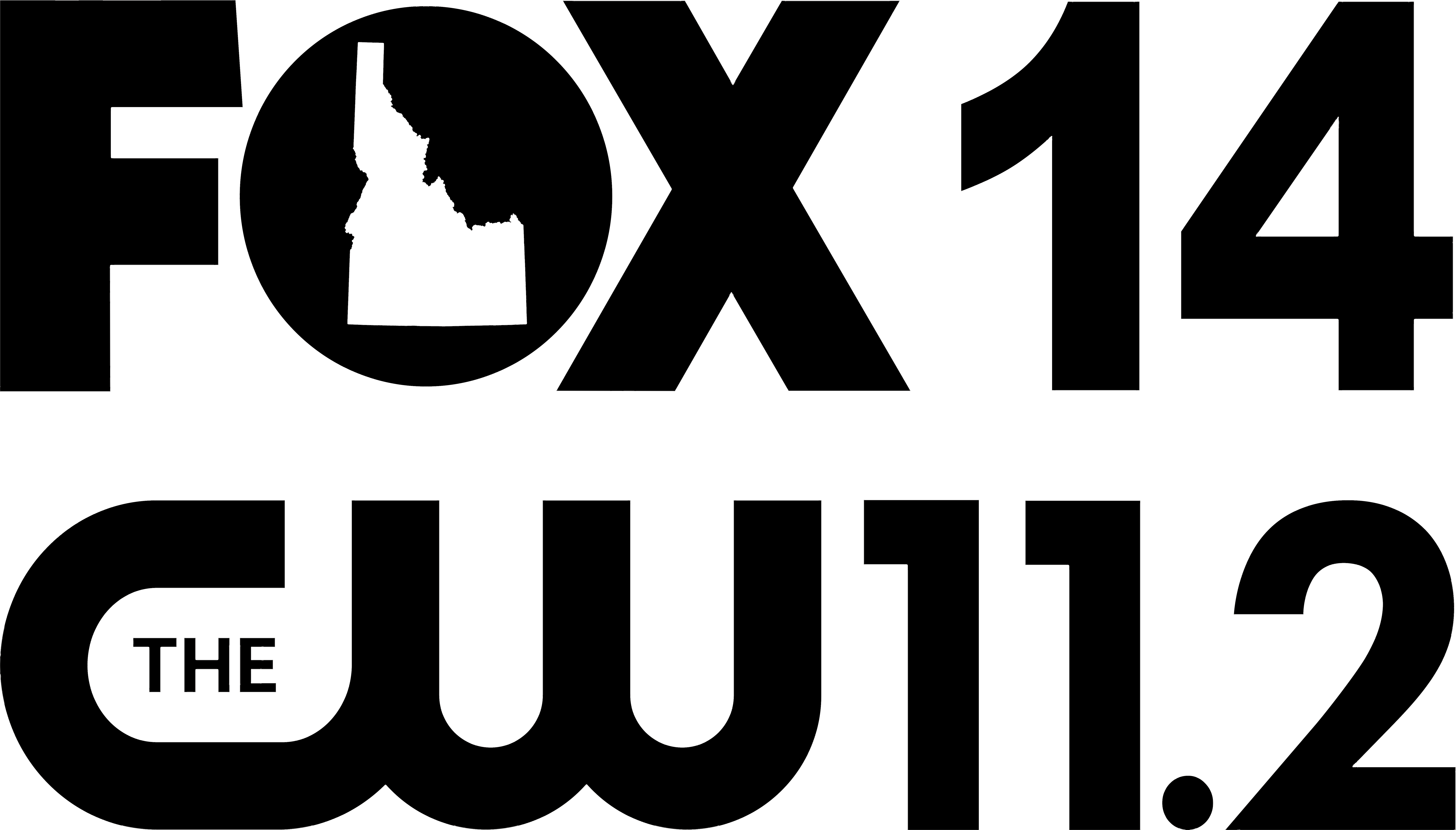 2016 Logo